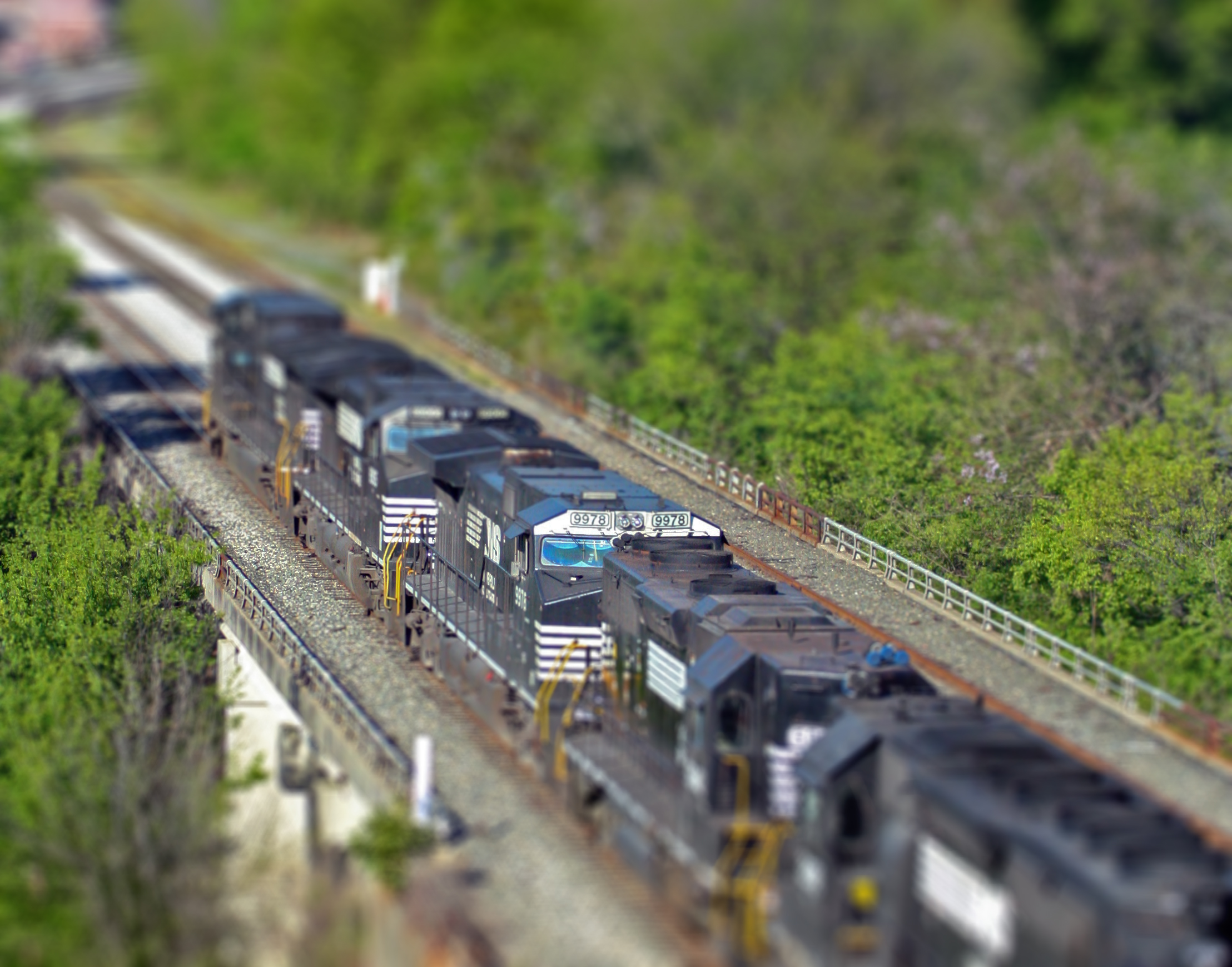 Train going over 6th Street in Uptown Charlotte, NC.